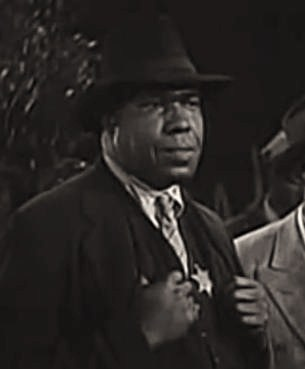 Everett Brown in The Duke Is Tops - cropped screenshot